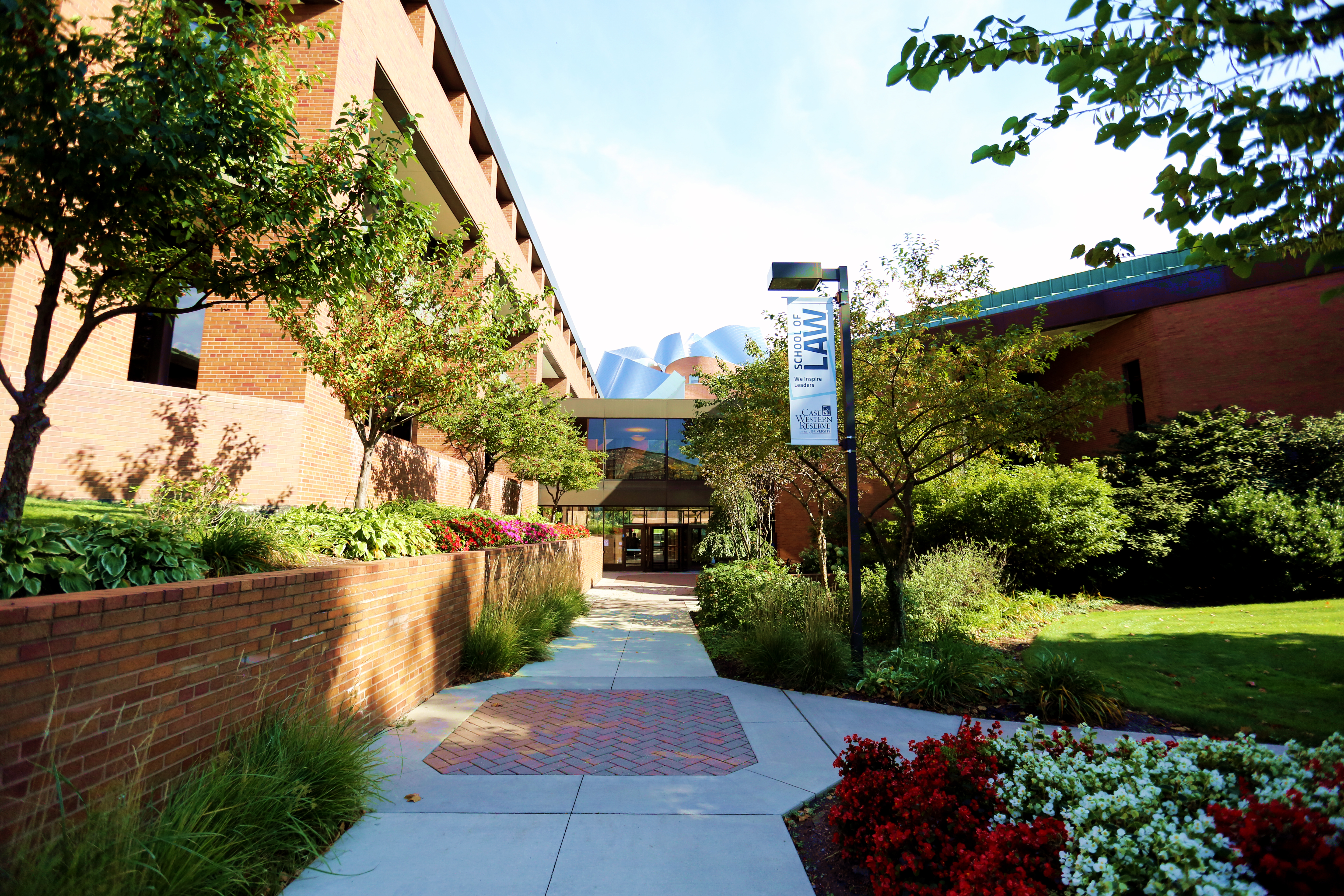 This is the front entrance to the Case Western Reserve University School of Law from East Boulevard in the University Circle neighborhood in Cleveland, OH.